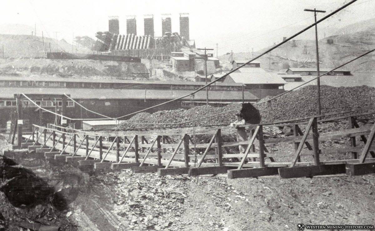 Foot Bridge Across River at the Mammoth Smelter - Kennett, California ca1910.